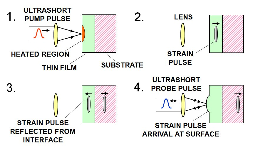 Principle of generation and detection in picosecond ultrasonics. Image created by the Applied Solid State Physics Laboratory, Division of Applied Physics, Graduate School of Engineering, Hokkaido University, Sapporo, Japan. Dec. 18, 2008 [1]